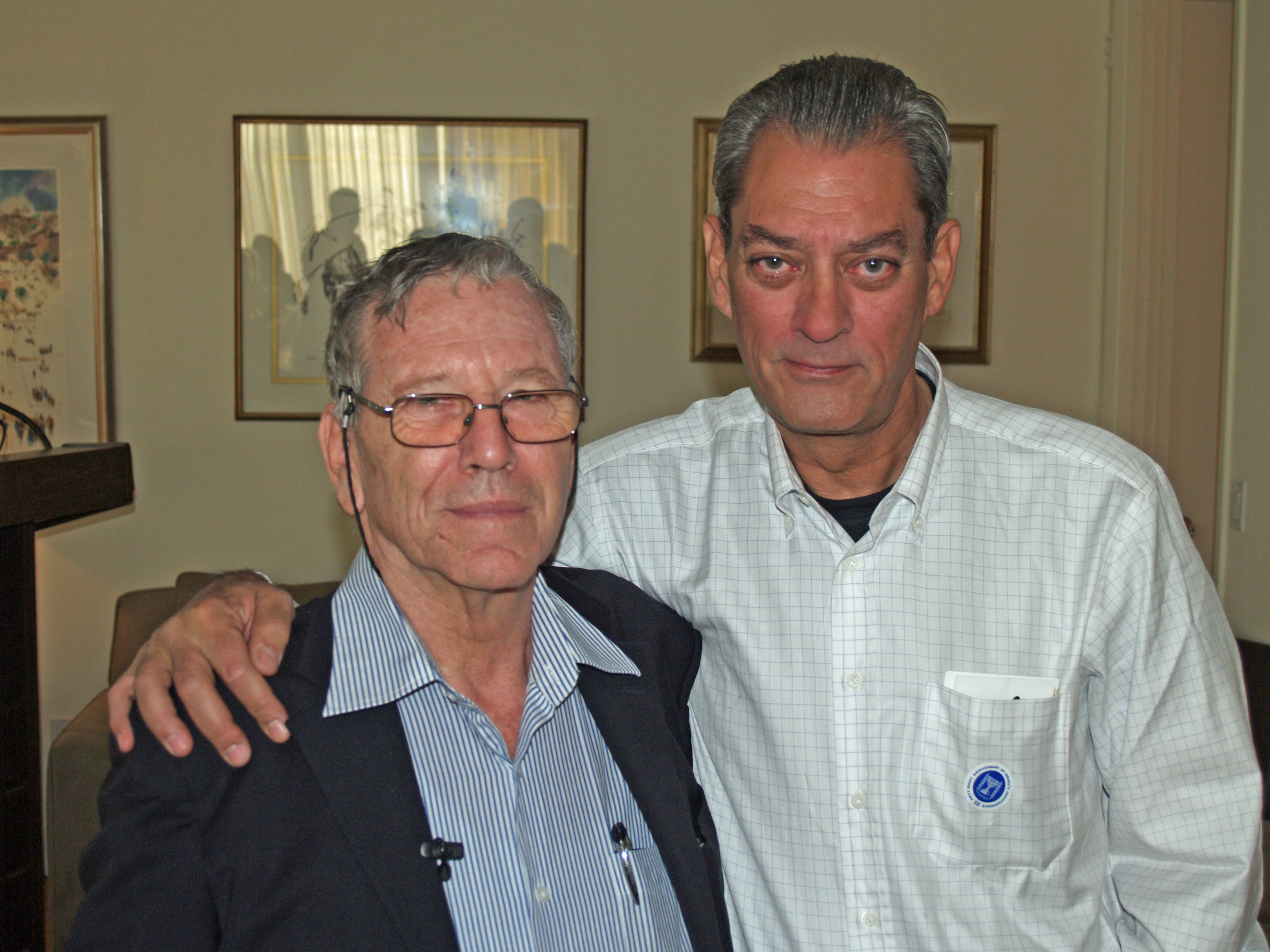 Paul Auster with Amos Oz at a breakfast honoring Israeli literary legend Amos Oz on the Upper East Side of Manhattan in New York City. Photographers blog post about this event and photograph.